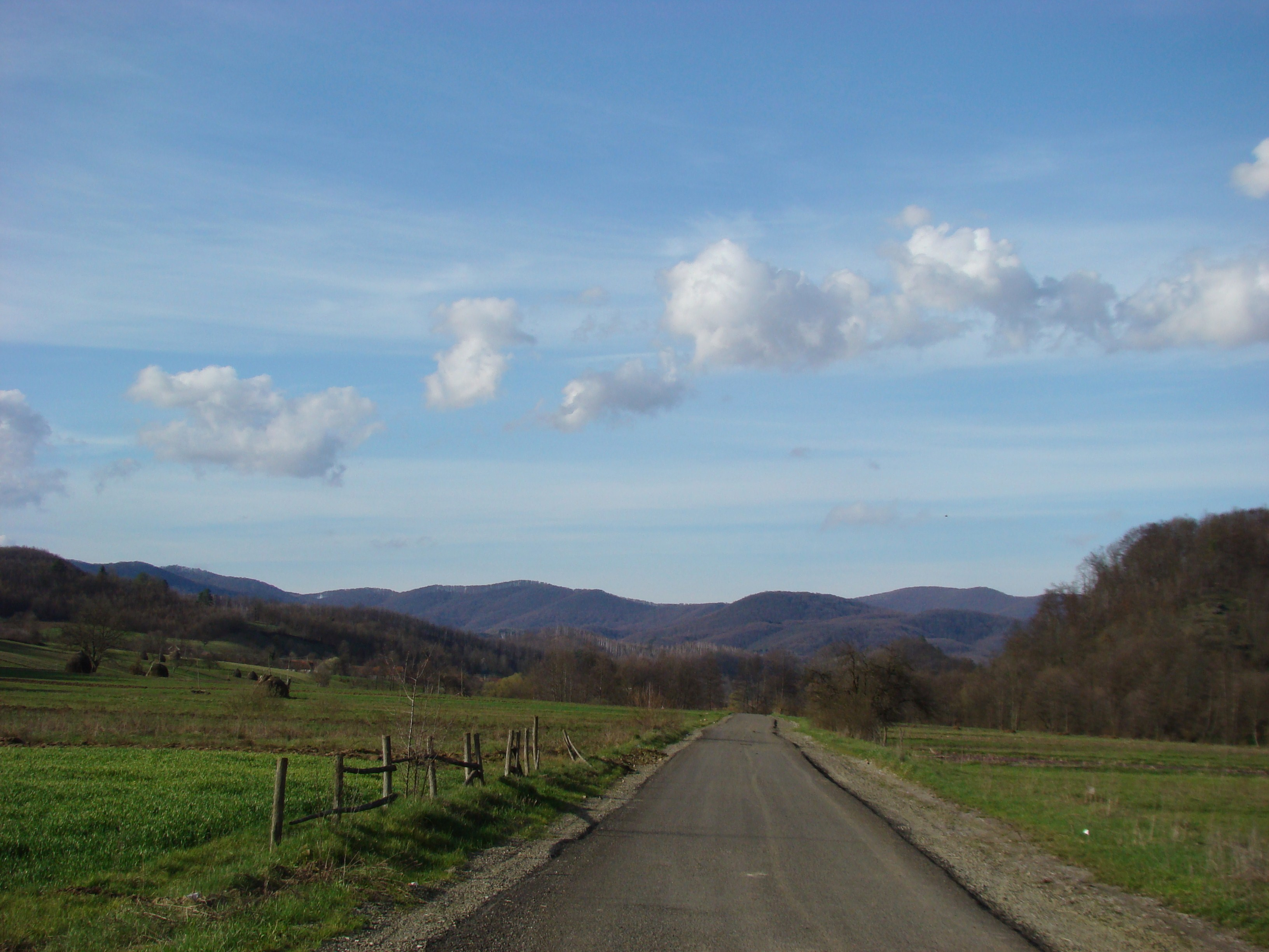 Zimbru, Arad county, Romania